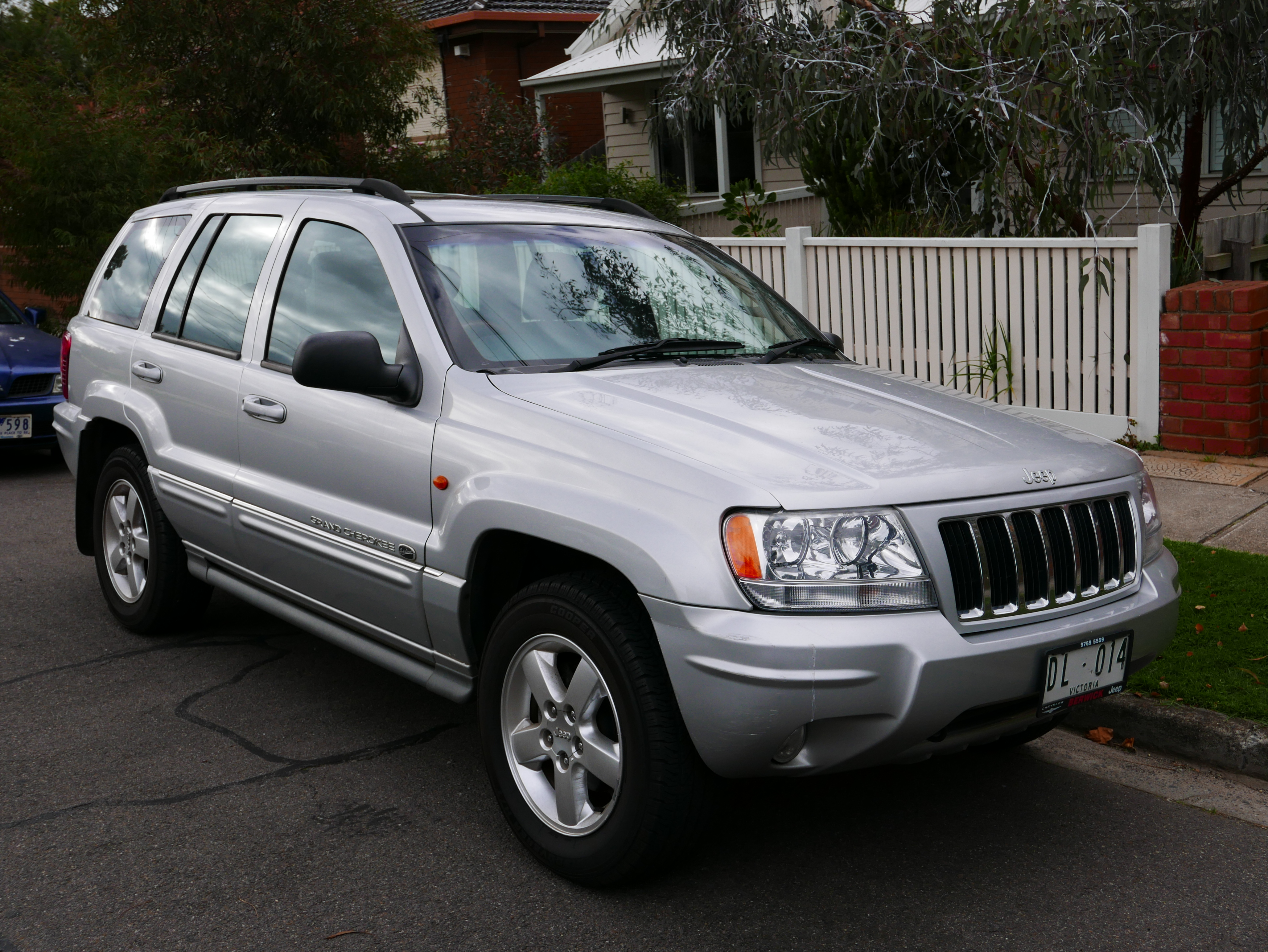 2004 Jeep Grand Cherokee (WG MY04) Overland wagon. Photographed in Northcote, Victoria, Australia. Vehicle registration enquiry resultsJurisdictionVictoriaRegistrationDL014Chassis code1J8G868J74Y134379Engine code4Y134379Compliance date2004-02Year of manufacture2004